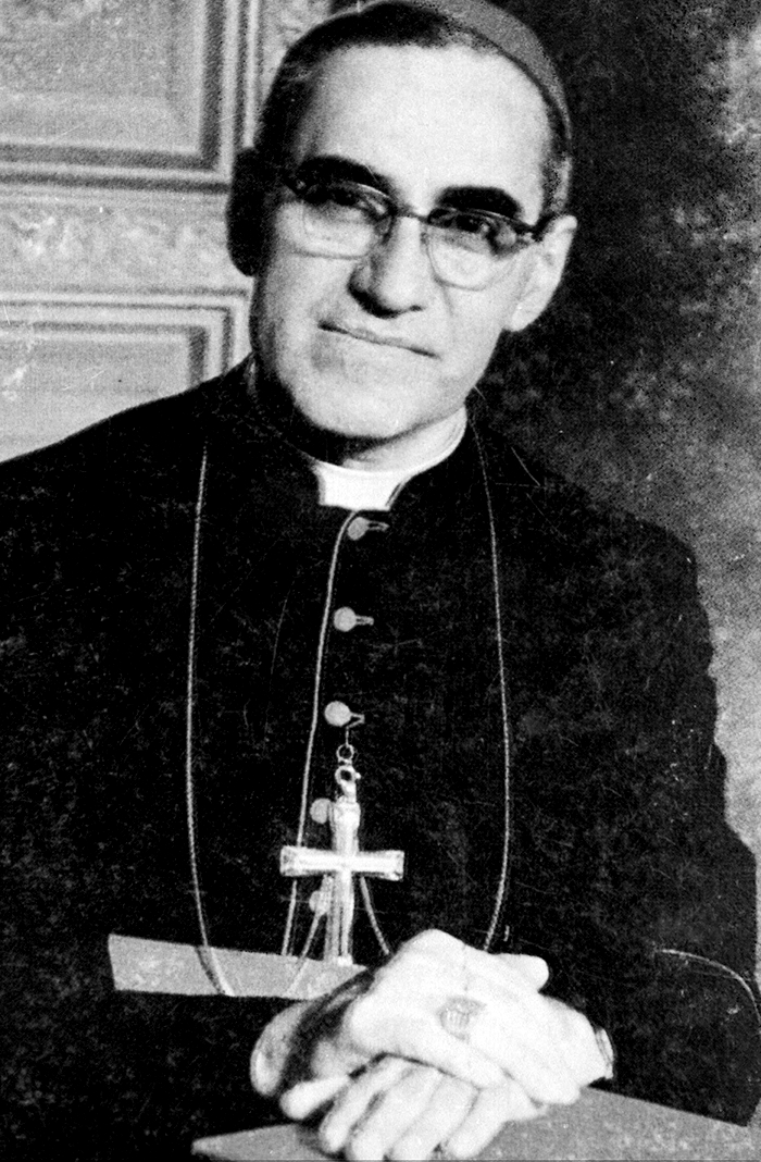 Óscar Arnulfo Romero y Galdámez in 1978 on a visit to Rome. Photo first published in the Republic of Italy in the same year. It was also used by the Office for the Canonization Cause of Romero of the San Salvador Archdiocese